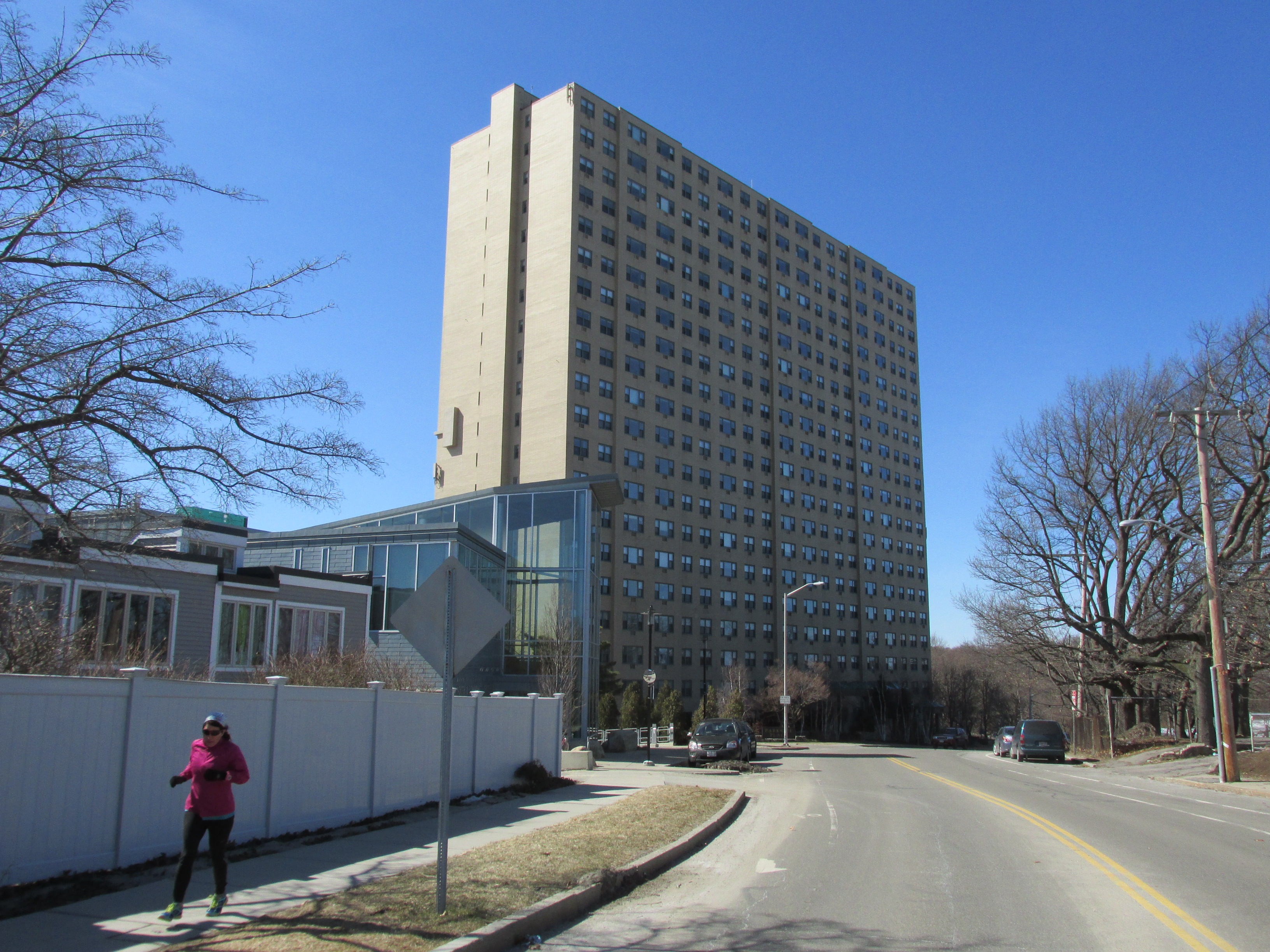 Parkside Place, Huron Avenue, Strawberry Hill, Cambridge Massachusetts - 2014